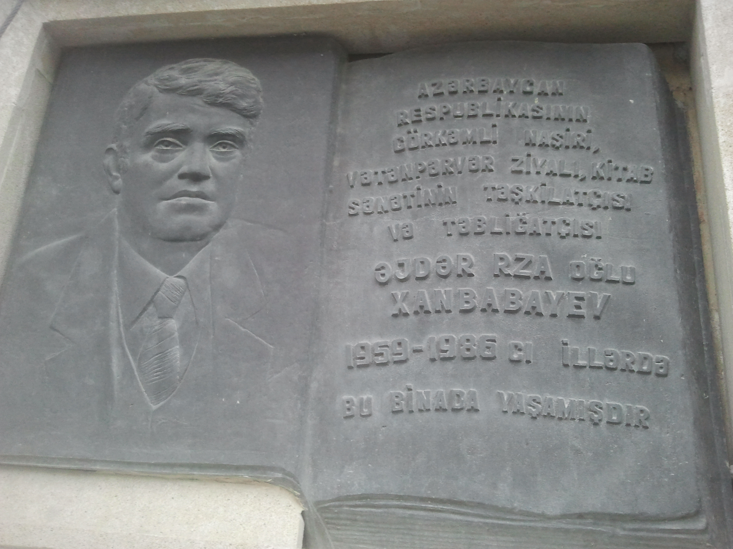 Plaque on building where Ajdar Khanbabayev lived in Baku for period 1959-1986.